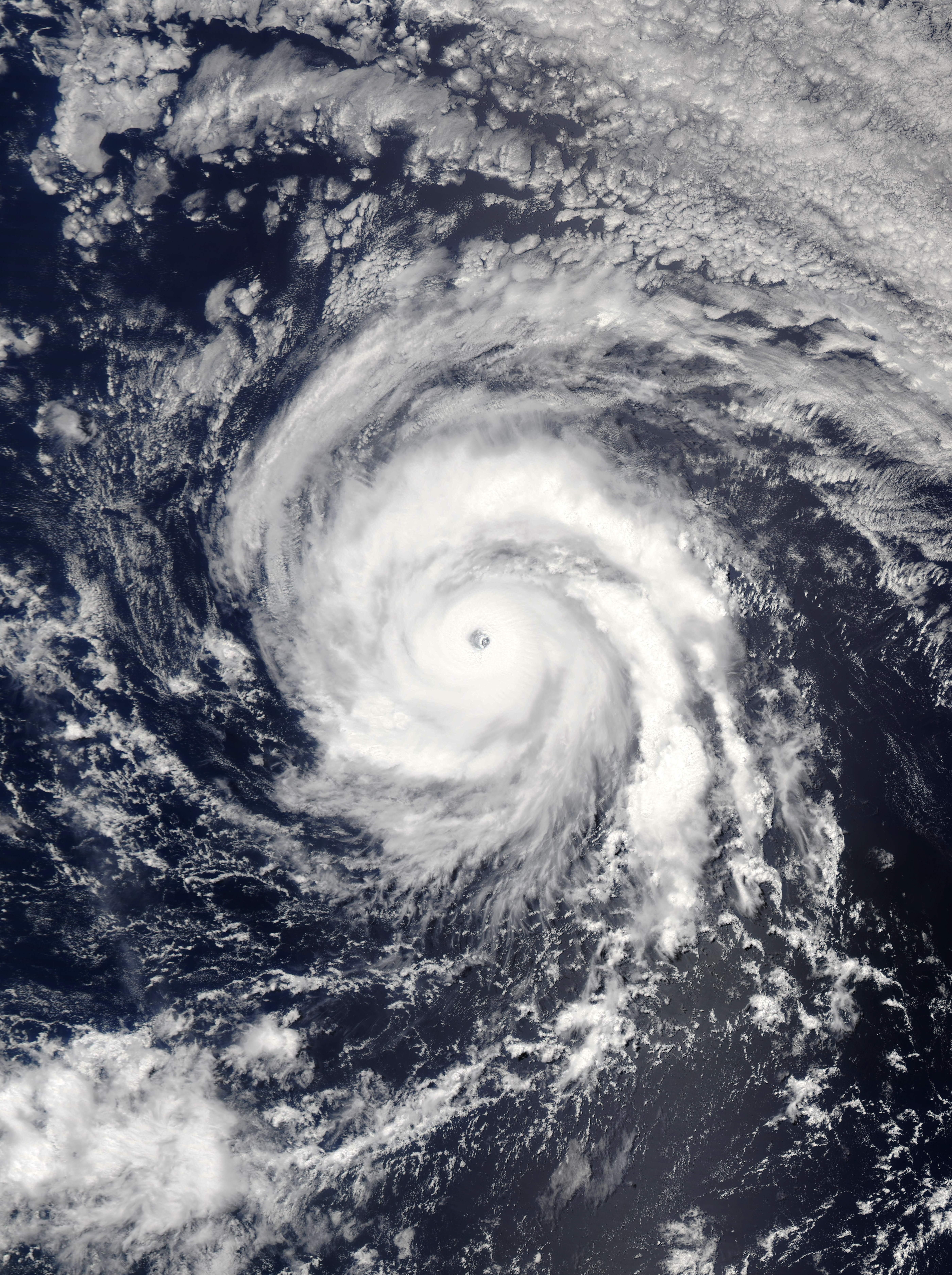 Hurricane Douglas on July 23, 2020